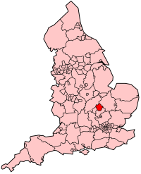 Map showing location of Bedford Unitary Authority (effective 1st April 2009) in England.